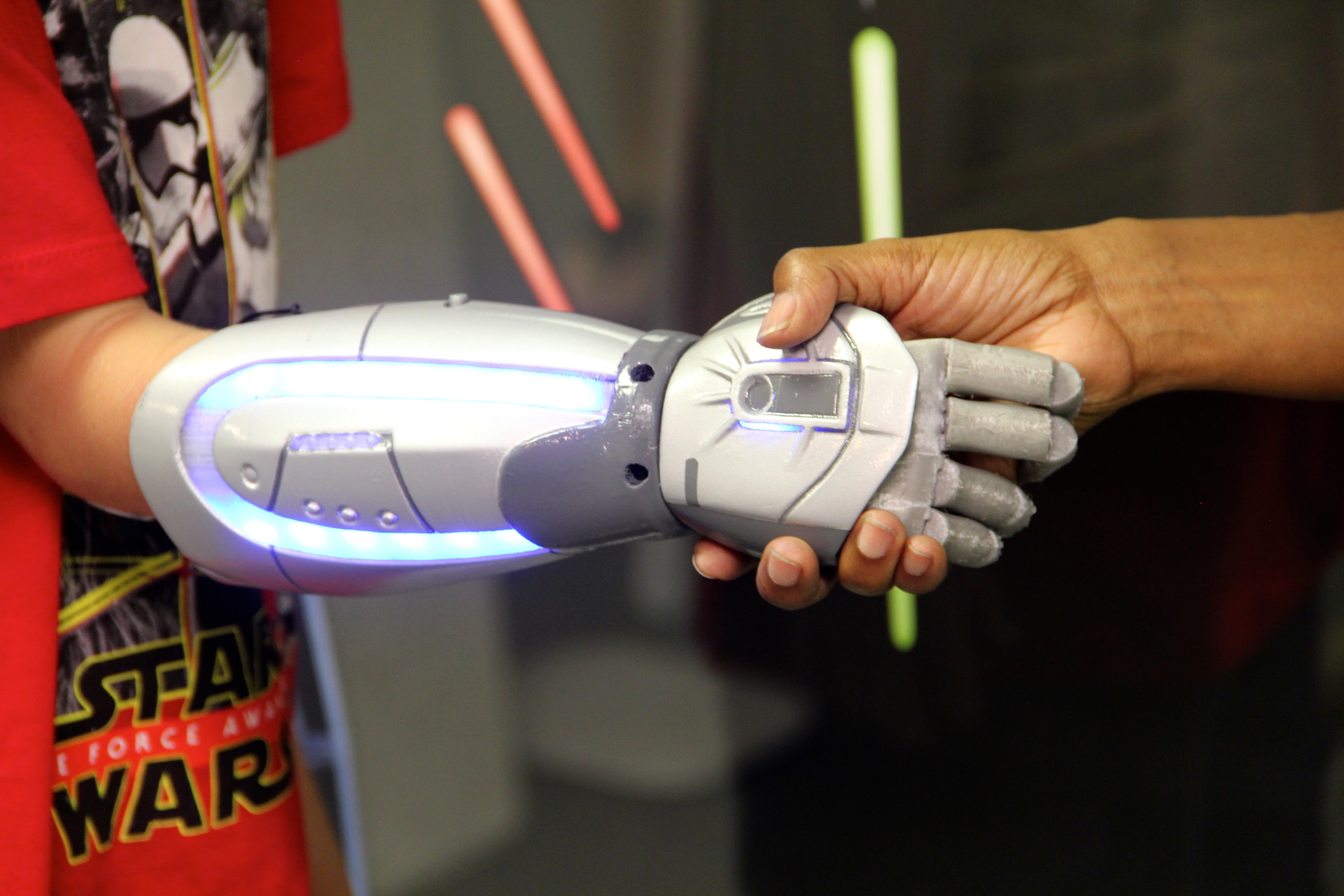 3D printed prosthetic hand made by Open Bionics in collaboration with ILM XLab